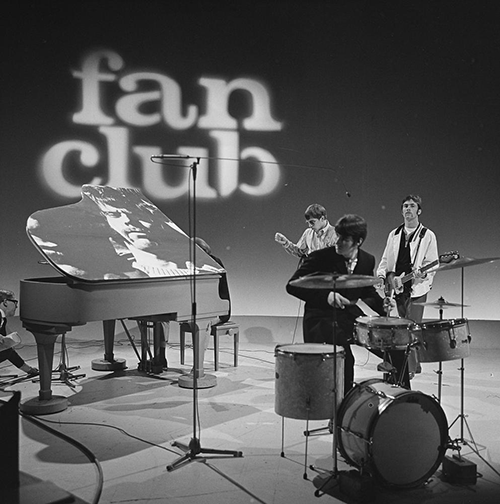 Televisieprogramma Fanclub 1967. Dutch popgroup Midnight Packet.